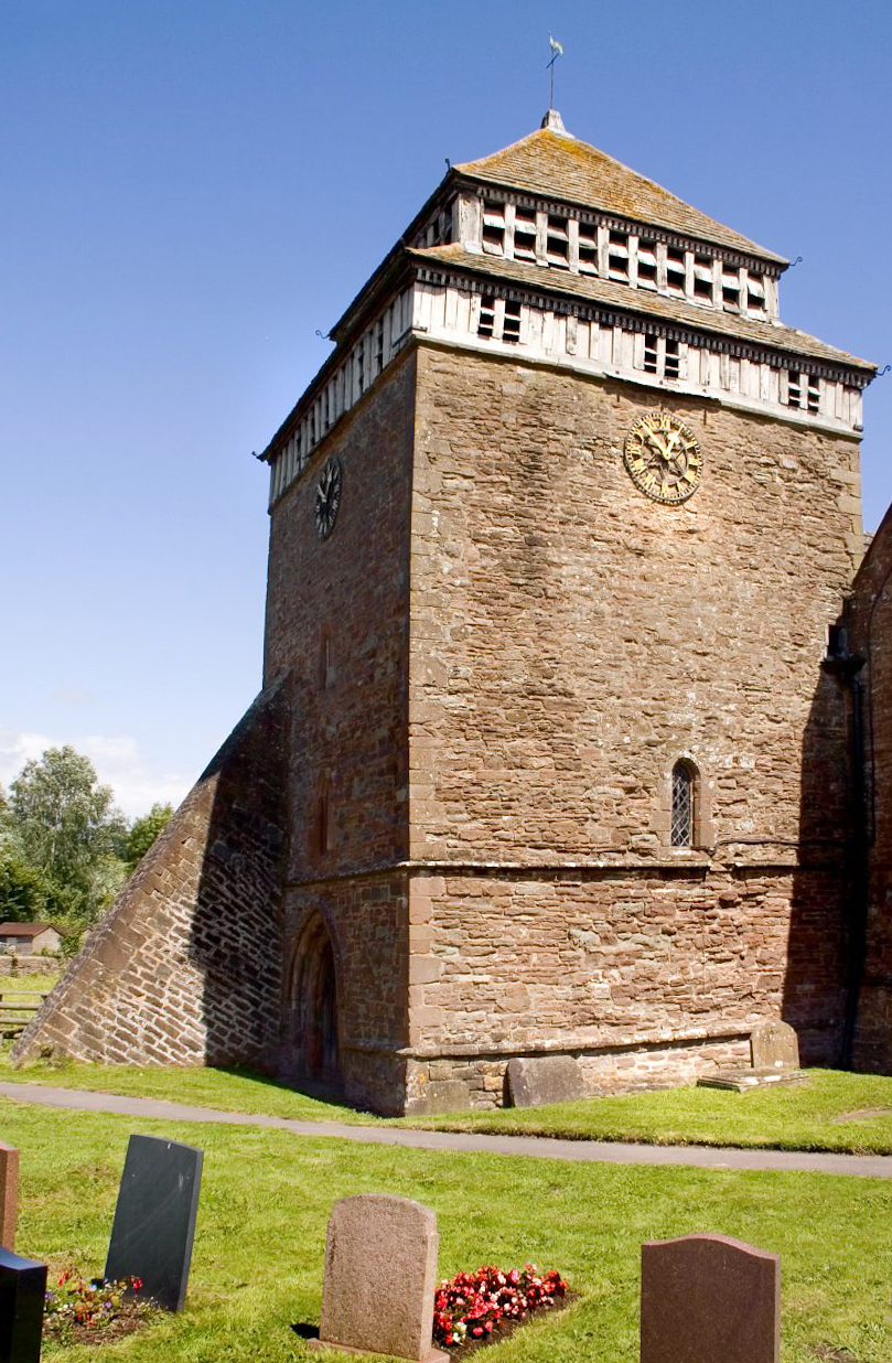 St. Bridget's Church tower in the village of Skenfrith, Monmouthshire, Wales.